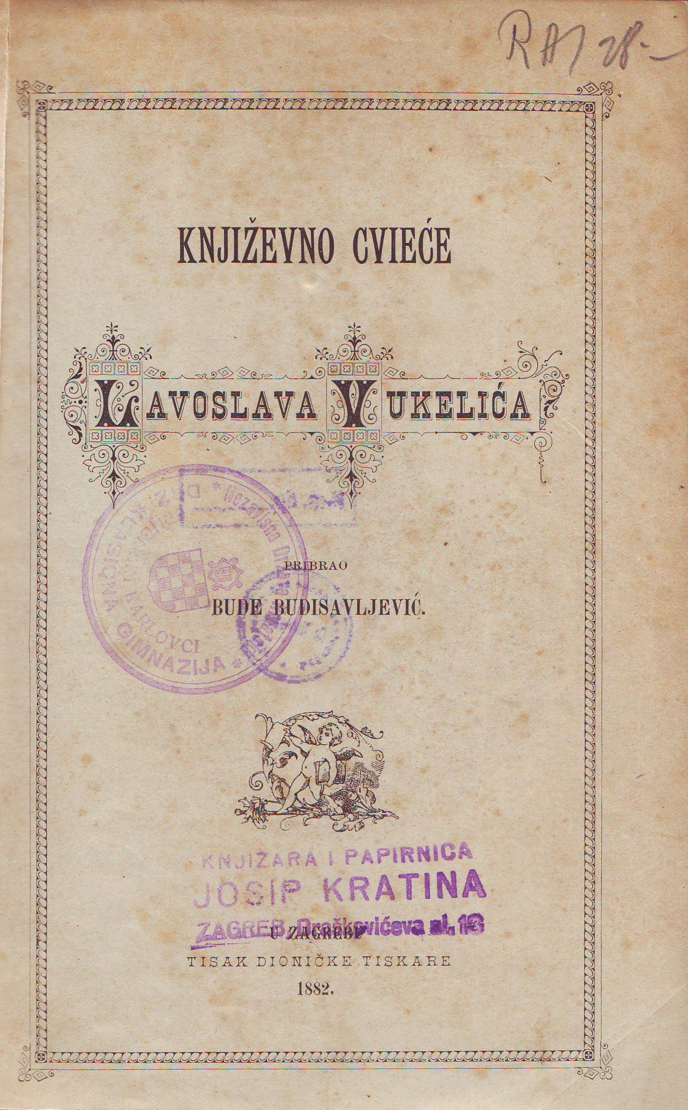 Cover of Književno cvieće Lavoslava Vukelića (1882) by Bude Budisavljević. Srpski (latinica): Naslovna strana knjige Književno cvieće Lavoslava Vukelića (1882) Bude Budisavljevića.